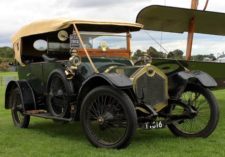 Crossley Model 15 (1912) from Shuttleworth Collection